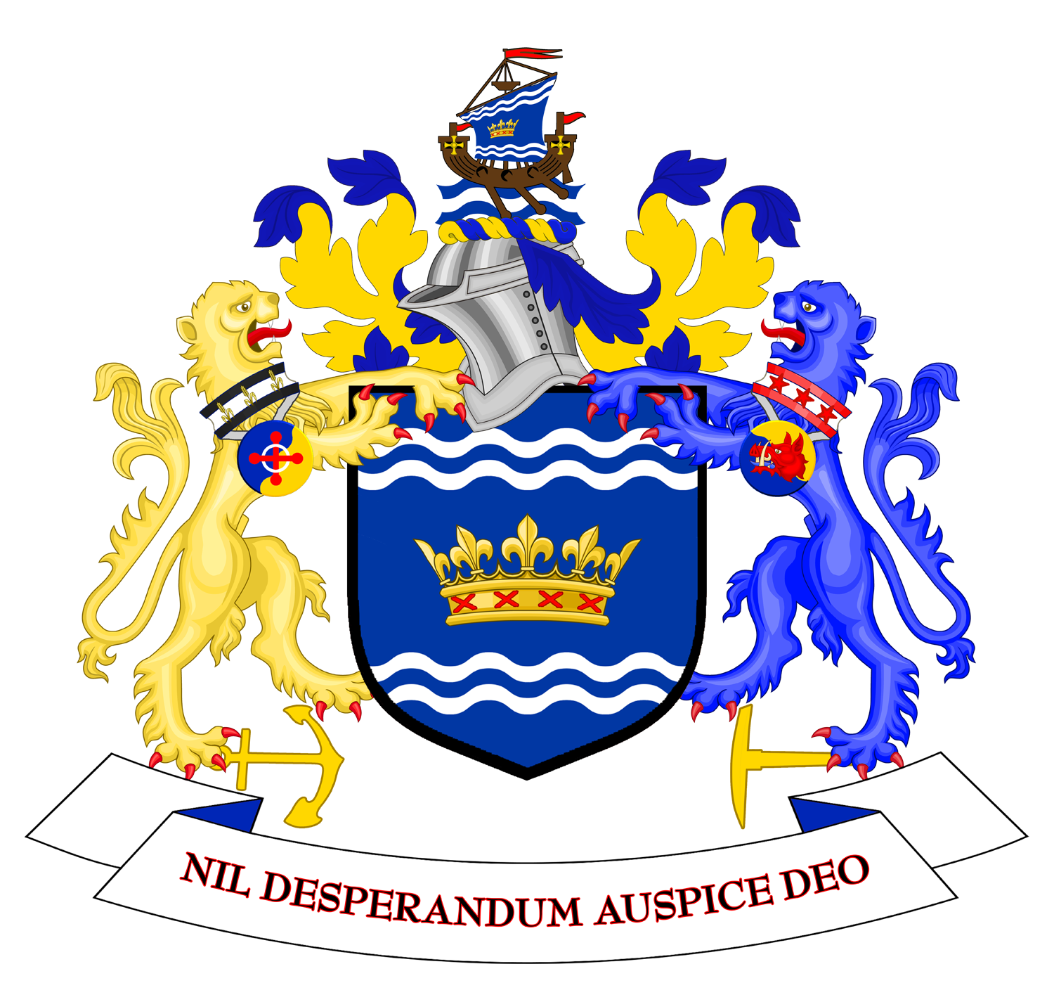 The Coat of arms of Sunderland City Council, the local government authority for the City of Sunderland, a metropolitan district of Tyne and Wear, in North East England. The blazon is:ARMS: Azure between in chief and in base a Bar wavy Argent charged with a like Barrulet Azure a Crown flory Or the circlet charged with four Saltires couped Gules.CREST: On a Wreath Or and Azure upon Water barry wavy Azure Argent Azure a Lymphad with Oars in action proper each Castle charged with two Crosses of Saint Cuthbert (one manifest) Or a Sail of the Arms pennon and flags Gules; Mantled Azure doubled Or.SUPPORTERS: On the dexter side a Lion Or armed and langued Gules gorged with a Collar Argent fimbriated Sable charged with six Ears of Wheat proper (three manifest) dependent therefrom a Roundel per bend wavy Or and Azure charged with a Cross pommy Gules entwined by an Orle Argent standing on an Anchor the flukes inward Or and on the sinister side a Lion Azure amrned and languled Gules gorged with a Collar Argent fimbriated Gules charged with six Mullets also Gules (three manifest) dependent therefrom a Roundel per bend wavy Or and Azure charged with a Boar's Head close couped Gules armed Or standing on a Miner's Pick ward Or the head turned inwards also Gold.